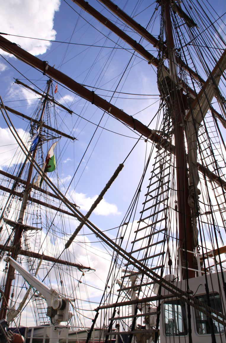 Friggin' in the riggin'